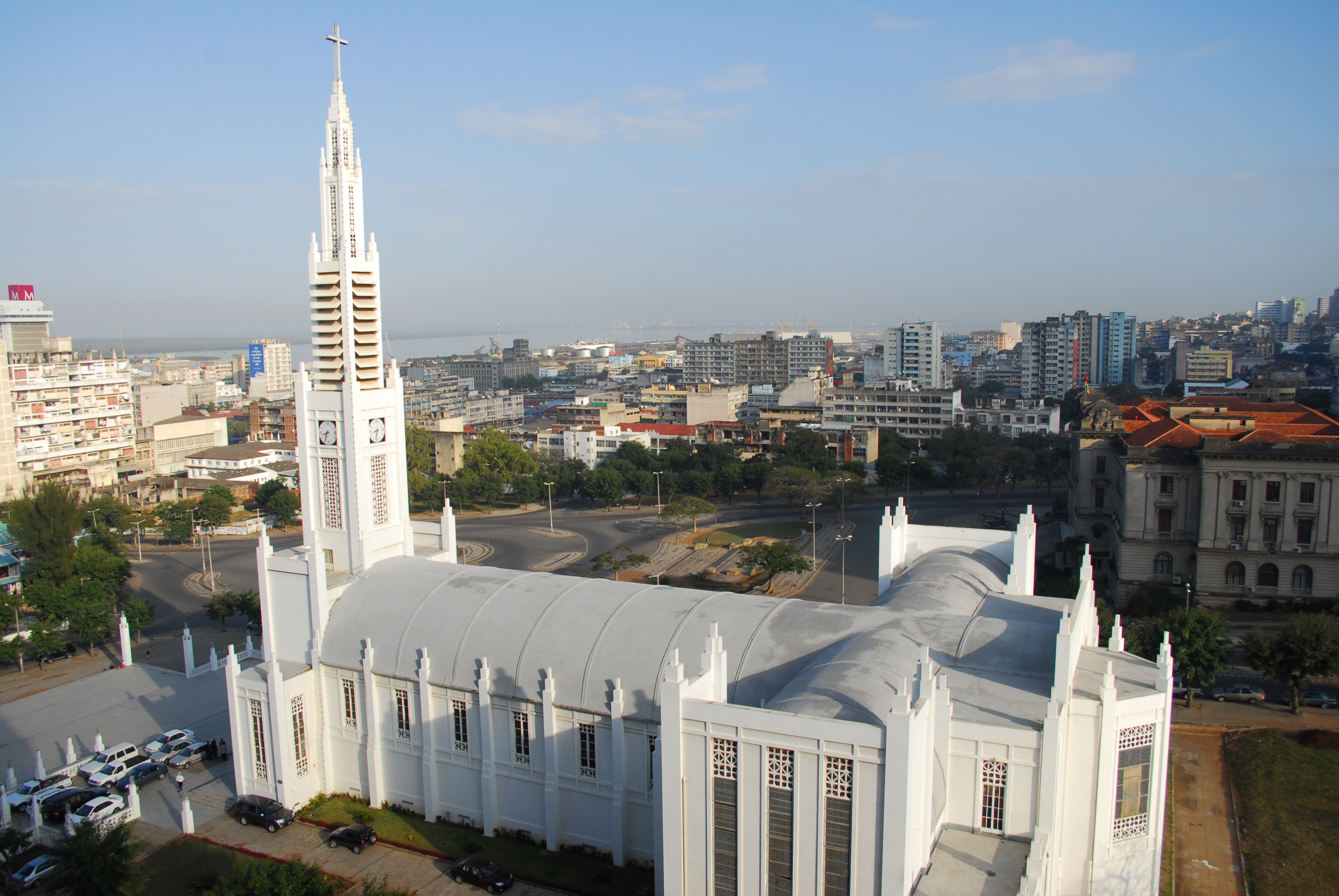 Cathedral of Maputo, Mozambique